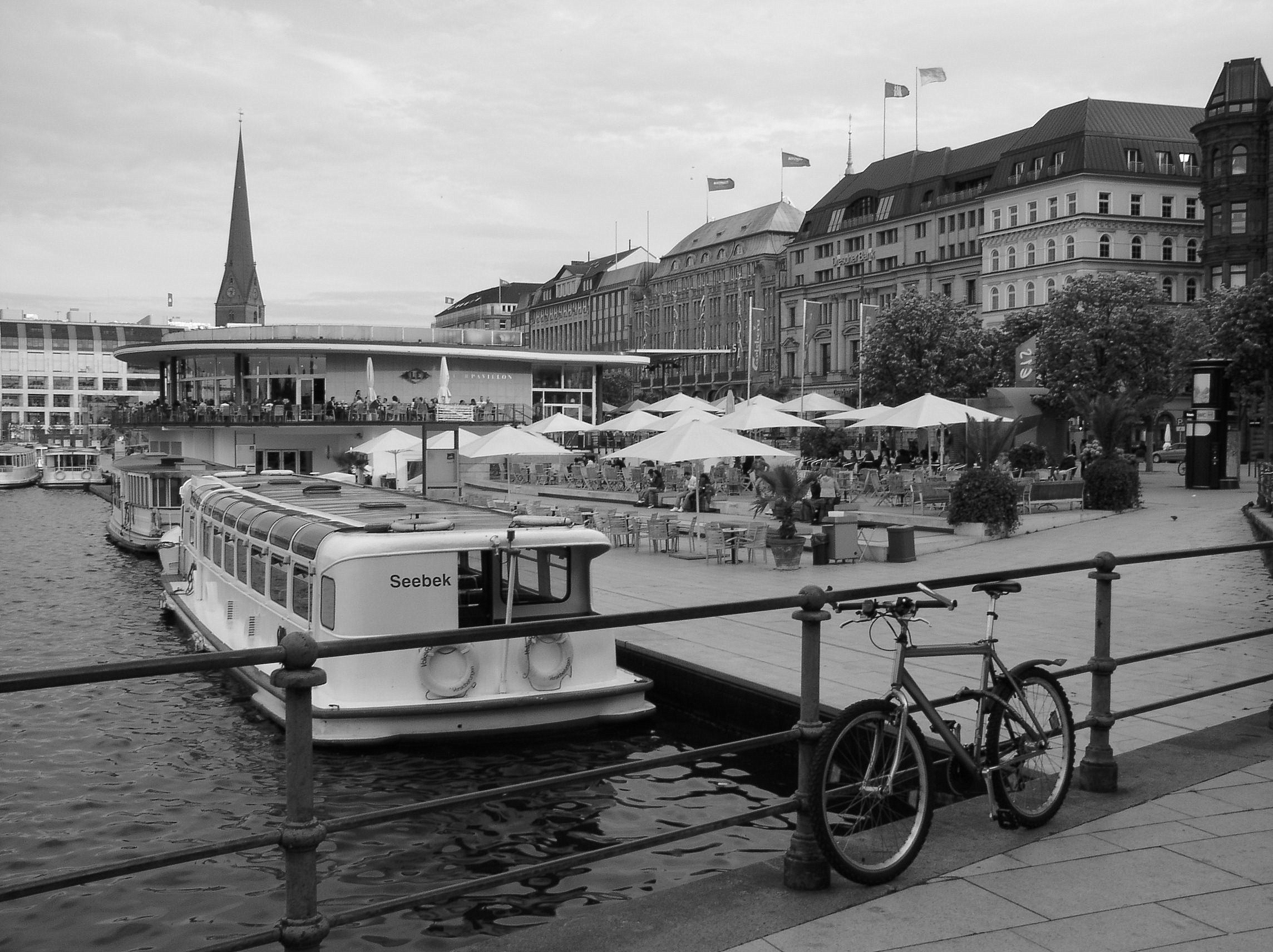 The Alsterpavilion at Jungfernstieg in Hamburg, Germany. In the foreground Alster ship Seebek.